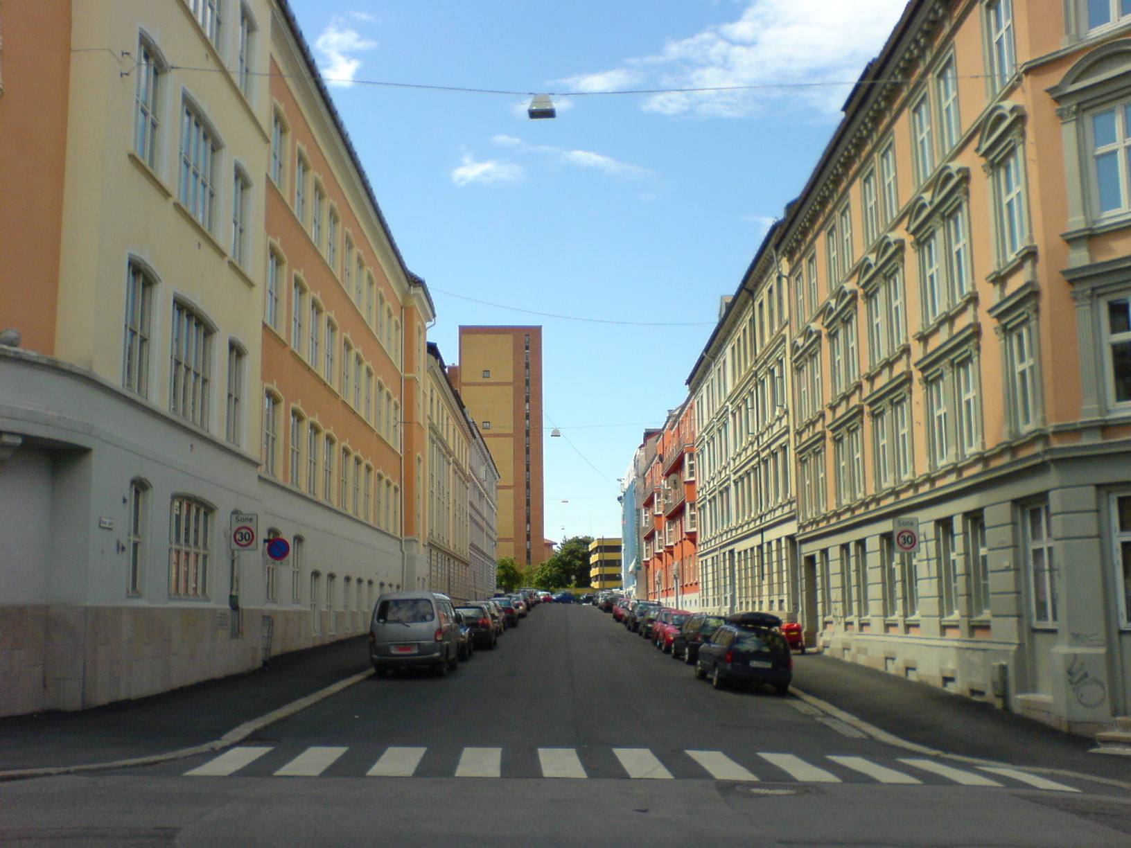 The street Sexes gate in Oslo, Norway